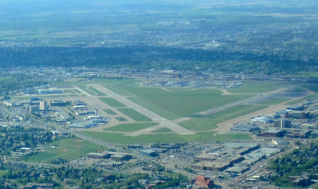 Edmonton City Centre Airport. May 26, 2012.